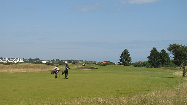 Carnoustie On one of the three courses at Carnoustie Links. The Championship Course has a fearsome reputation, partly due to the winds which were absent today.